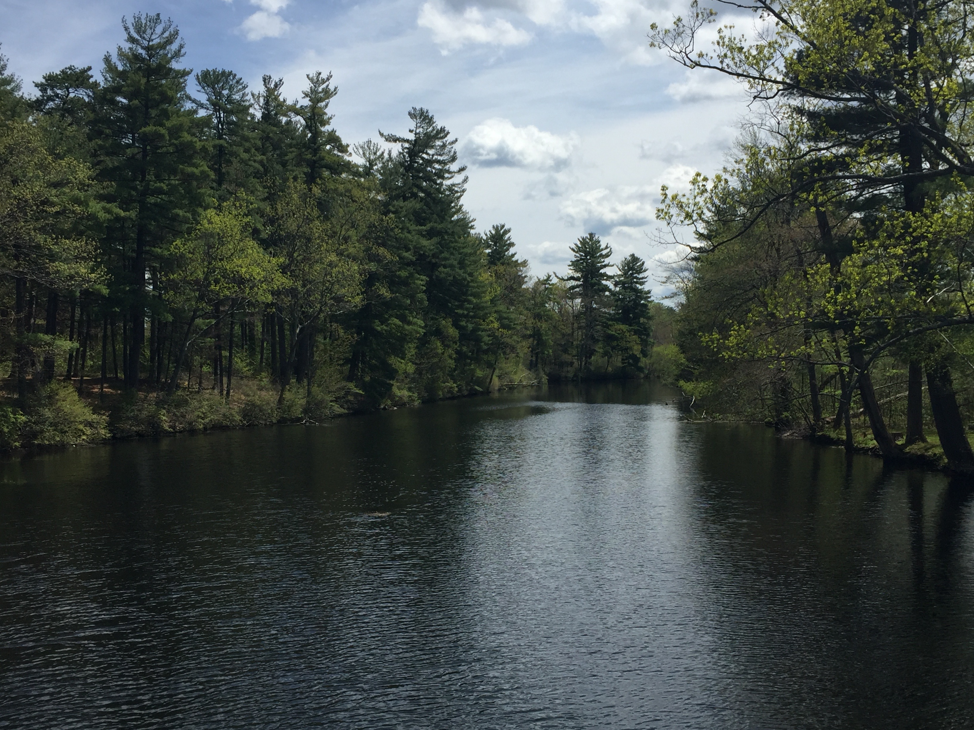 The Cocheco River at Hanson Pines in Rochester, New Hampshire, May 2016